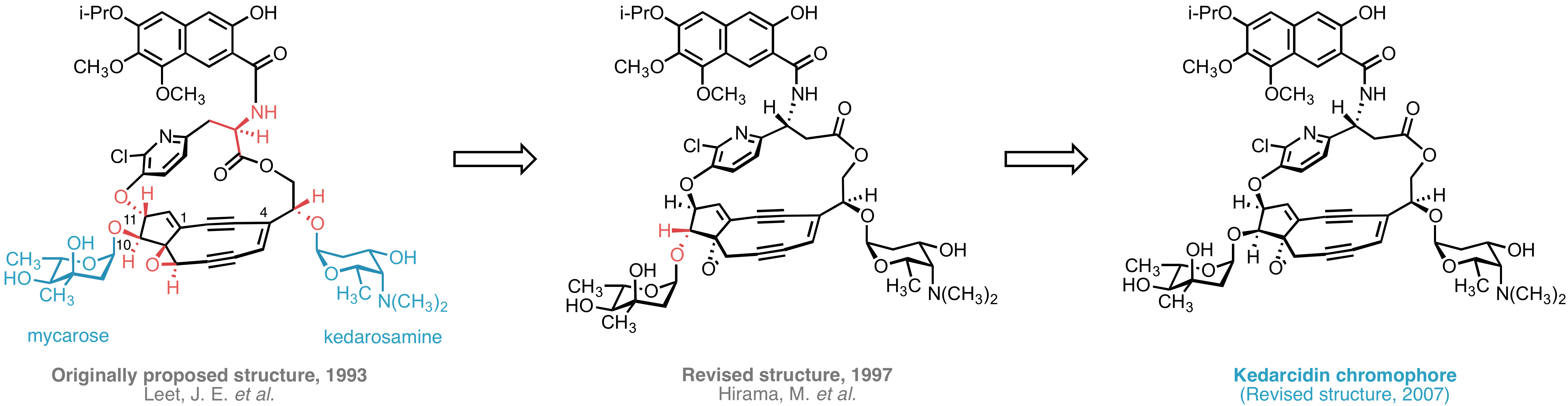 Iterative revisions of the originally proposed structure of kedarcidin chromophore leading to currently accepted structure.